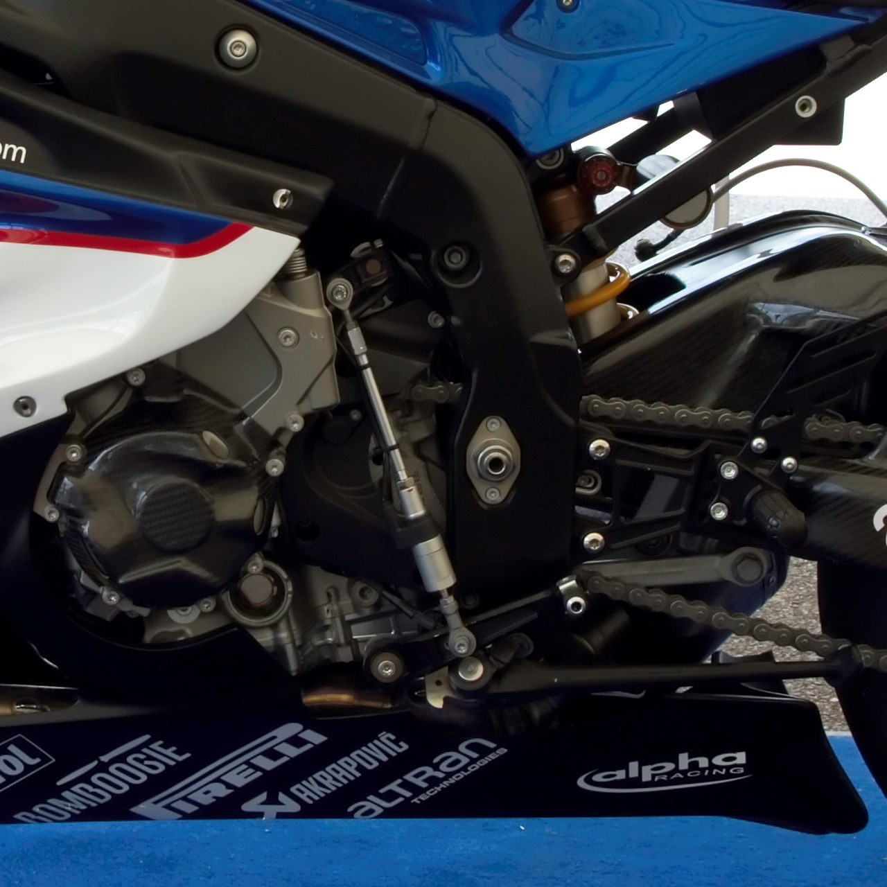 Image showing Gear rod and Quickshifter on BMW S1000RR motorcycle.